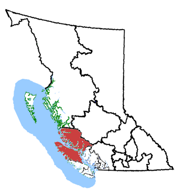 Map of the Vancouver Island North electoral district. Based on Earl Andrew's maps, created by SimonP.